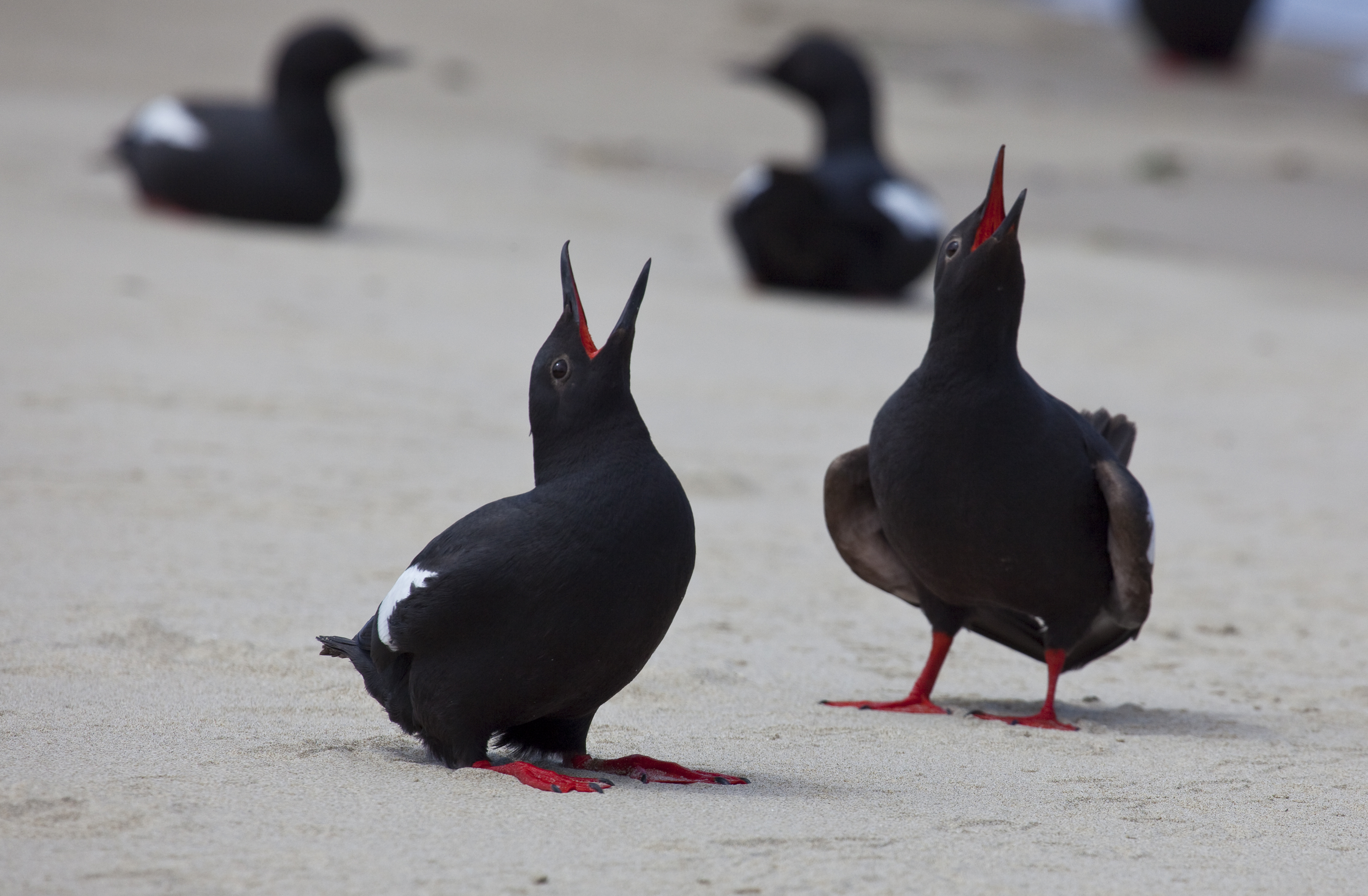 Male and female pigeon guillemots in courtship display. Guillemots breed within Oregon Islands and Three Arch Rocks National Wildlife Refuge Photo courtesy of Roy W. Lowe